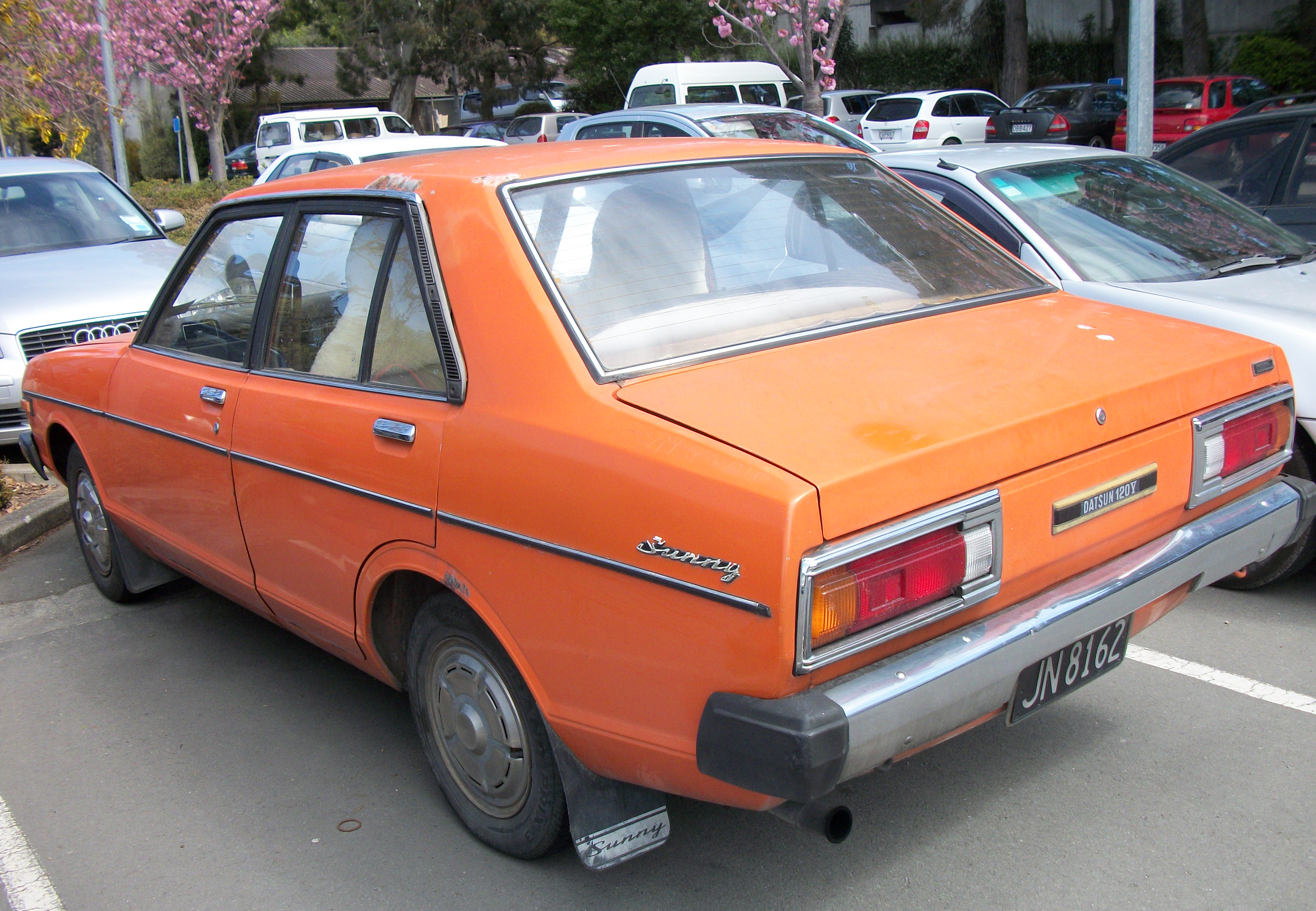 JN8162 I don't like these as much as the epically cool 120Y, but I felt this deserved a photo as they are pretty rare nowadays anyway. Orange seems to have been a popular colour to have your Datsun in back then - but I wouldn't know, as this is a decade and a bit older than me... This car park at the University of Canterbury is such a goldmine for old cars - back in July, I spotted a Vauxhall FD Victor and an Isuzu Gemini Coupe! Both can be viewed in my photostream towards the beginning.